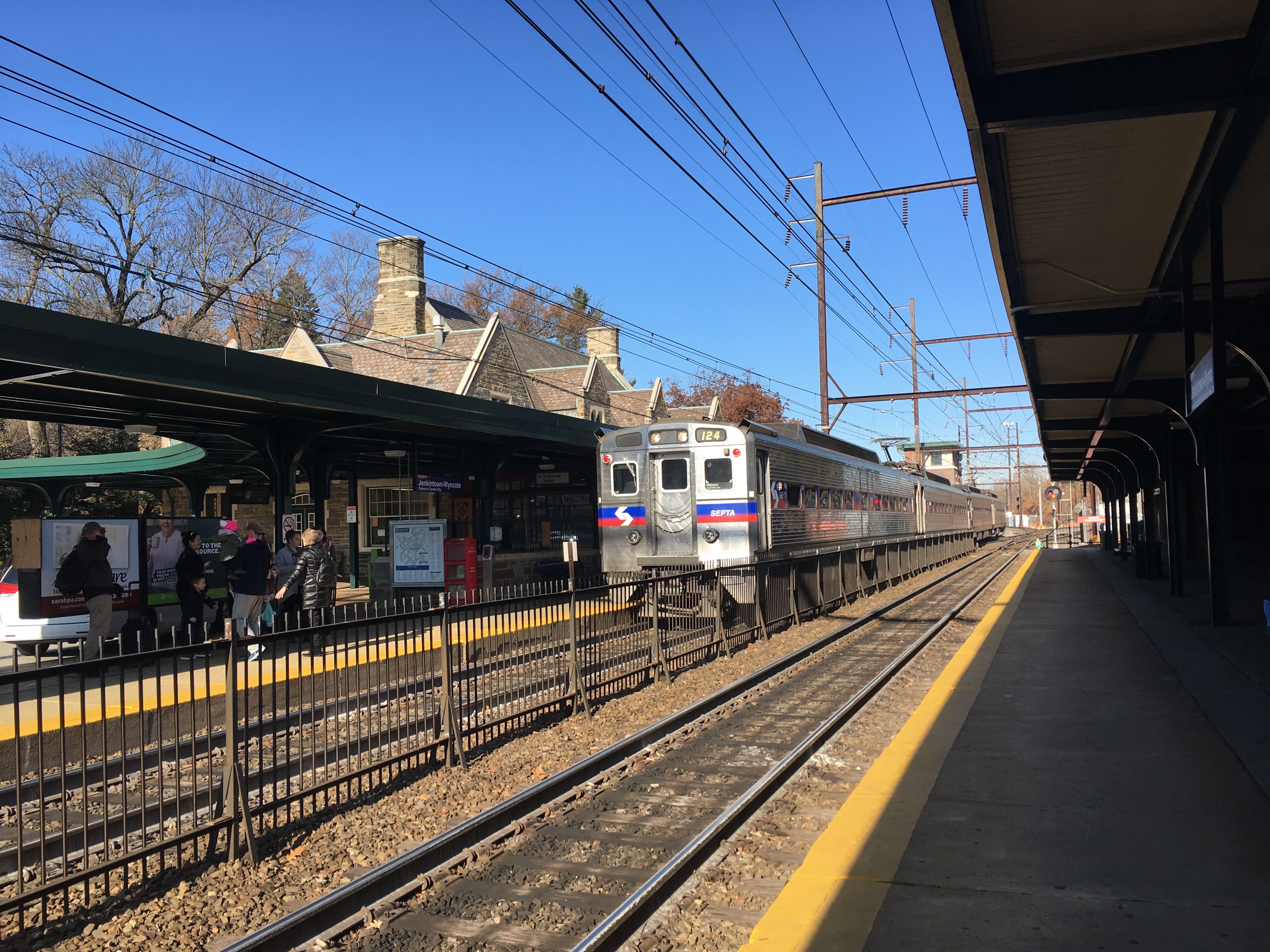 A SEPTA Lansdale/Doylestown Line train bound for Center City Philadelphia stops at the Jenkintown-Wyncote Station in Jenkintown, Pennsylvania.